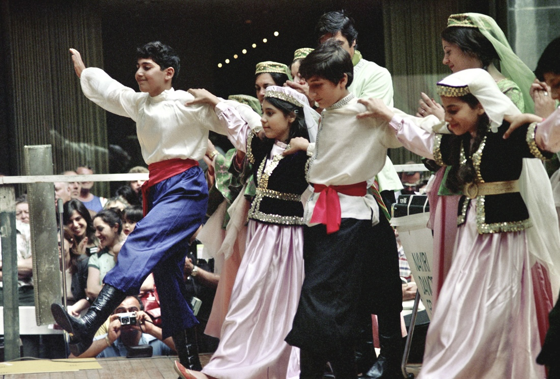 Armenian American dancers (Nayiri Dance Group) in New York City, July 1976 during the United State's Bicentennial festival part of an archival project, featuring the photographs of Nick DewWolf